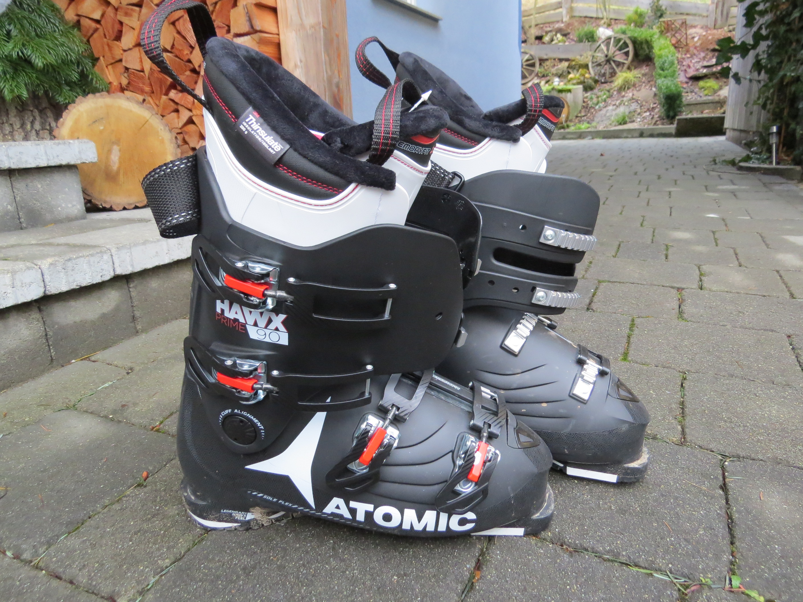 Atomic HAWX Prime 90 W ski boots